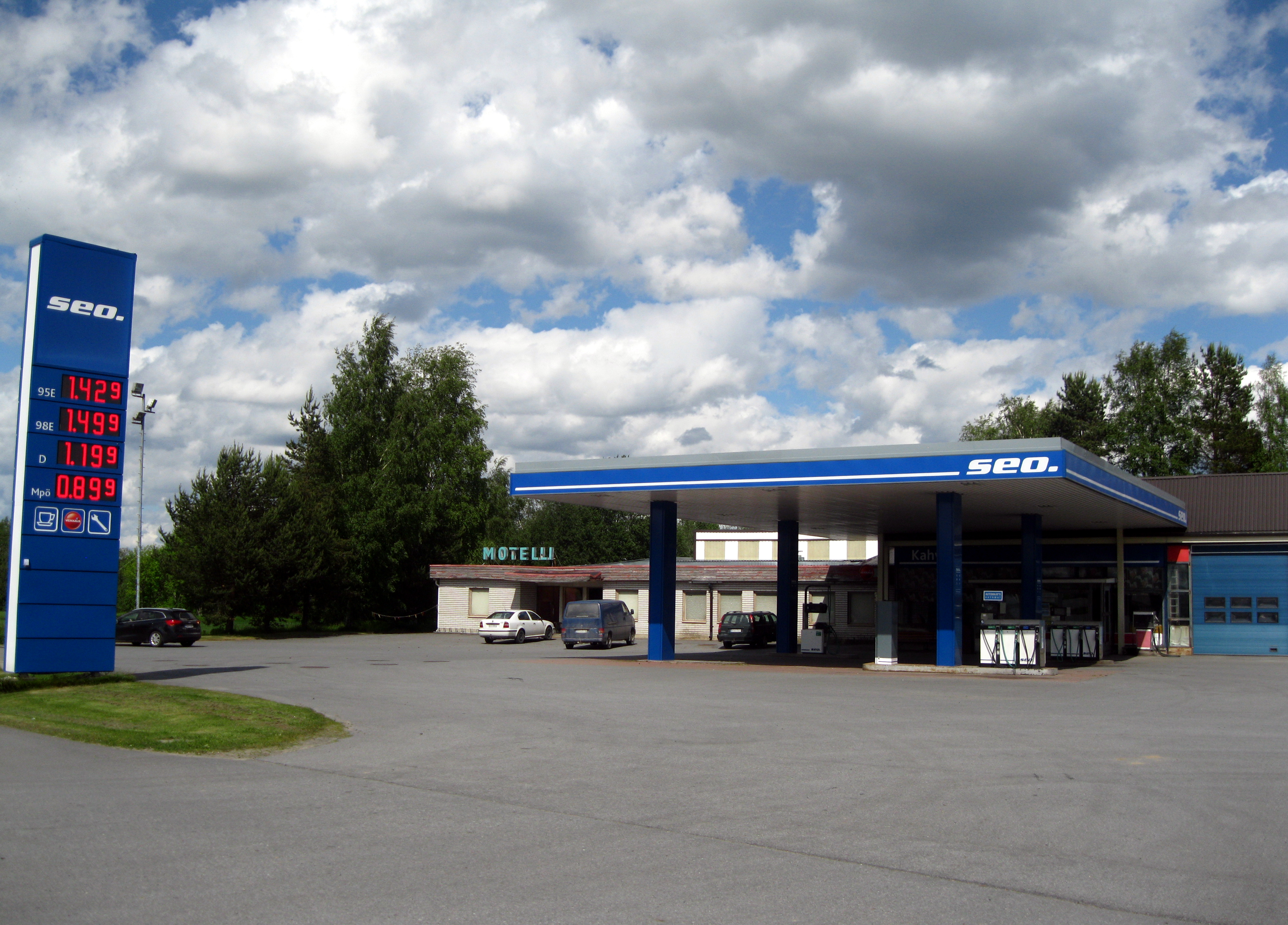 SEO petrol station in Vimpeli, Finland.